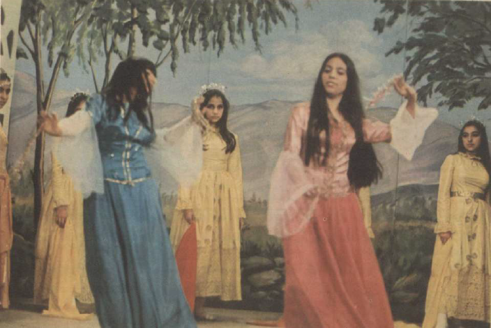 Iranian folk dance in a TV show - May 1971